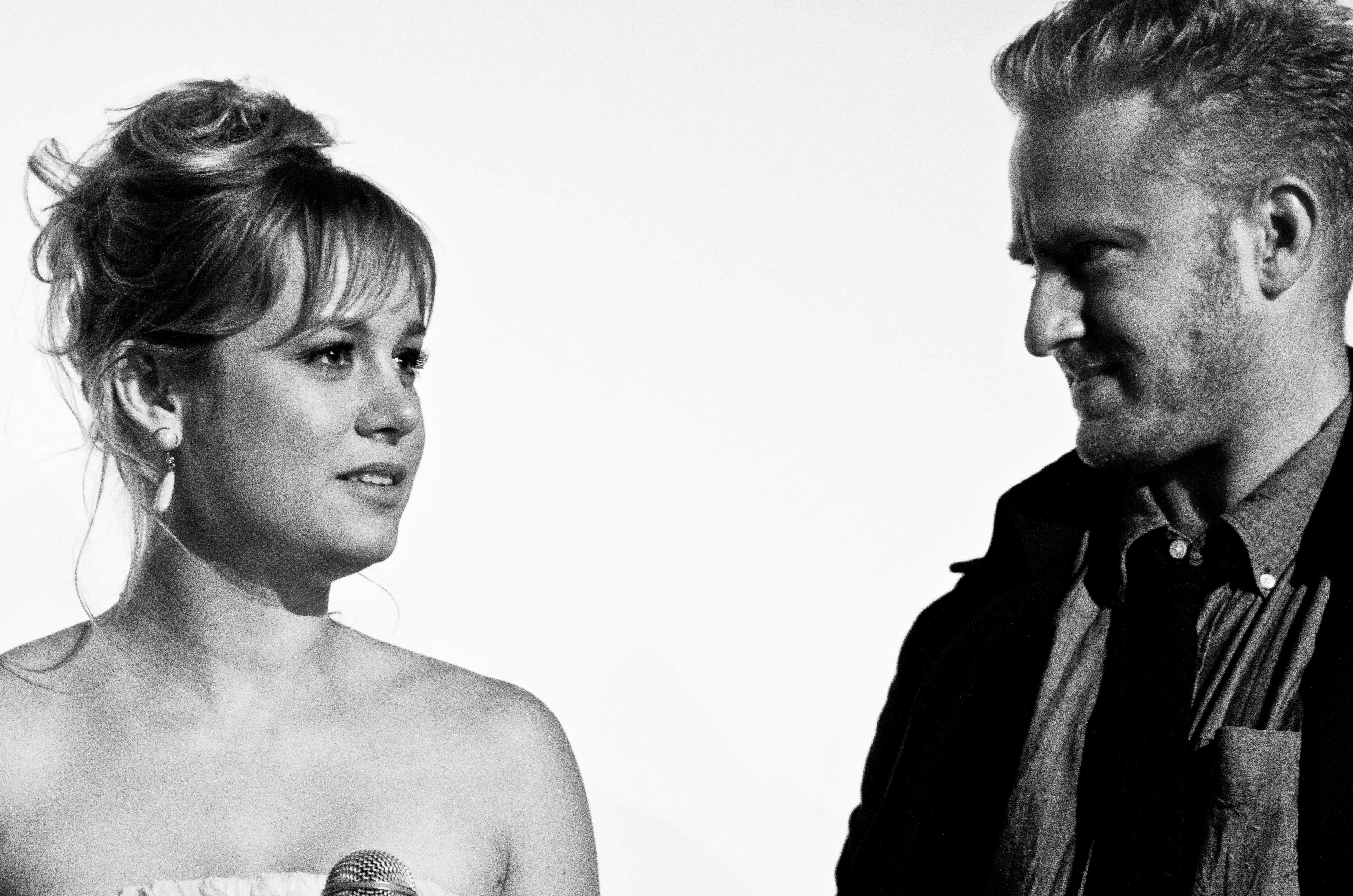 Ben Foster and Brie Larson at the 2011 TIFF premiere of Rampart